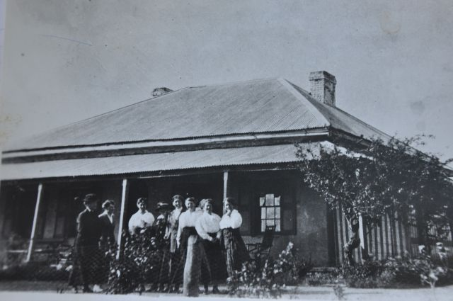 The Grange and Macquarie Plains Cemetery: Historic photo of the farmhouse building at the Grange, dating from c1900, held by Edward Jones